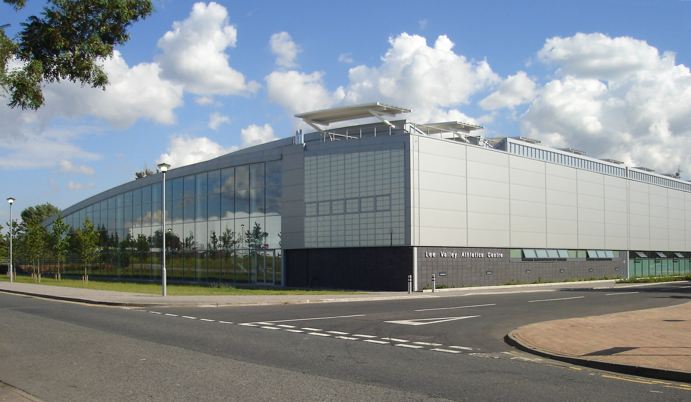 Picture of Lee Valley Athletics Centre